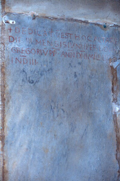 Inscription of Gregory VII from crypt of S. Cecilia (Rome), founding an altar